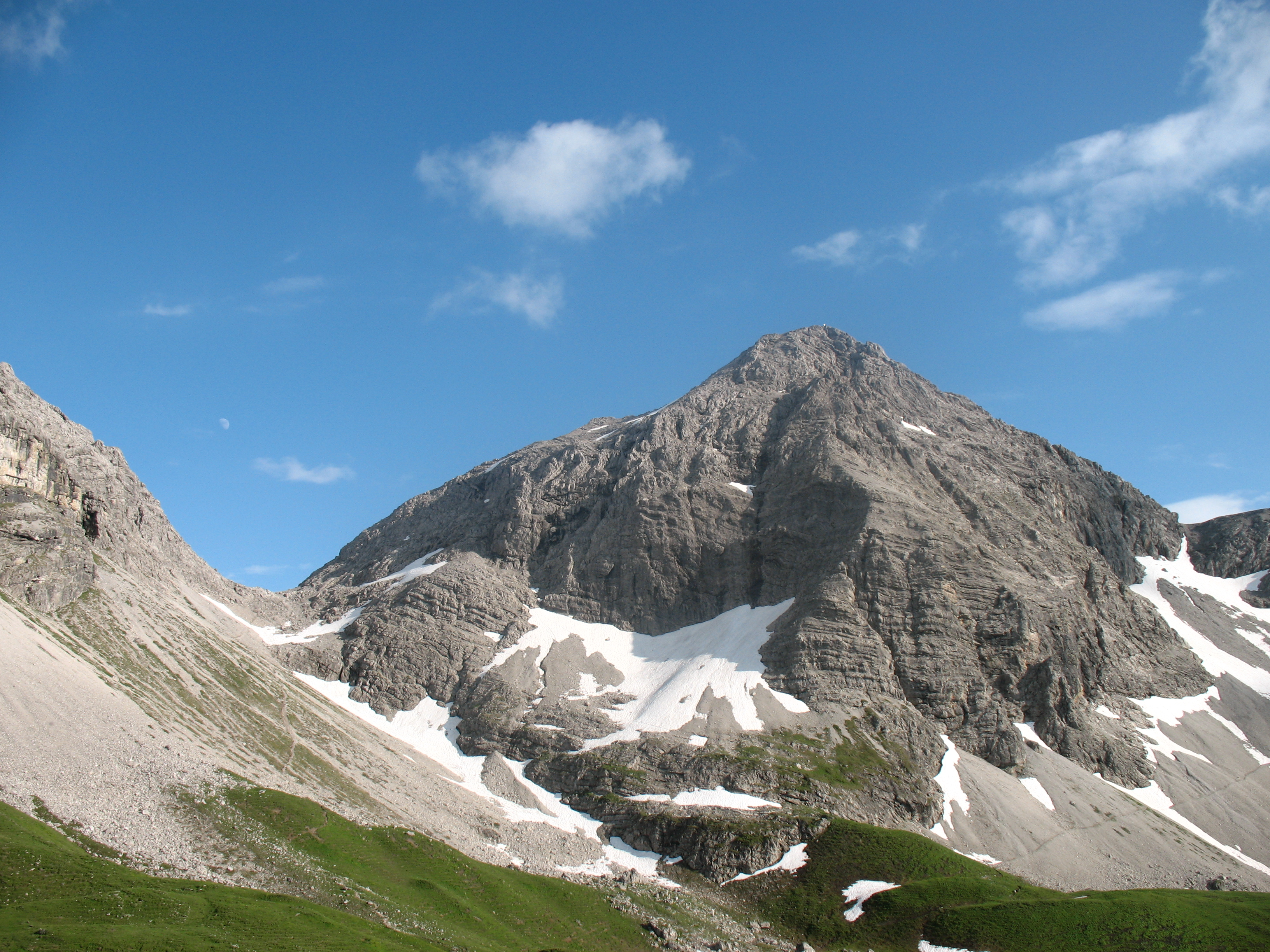 Northface of the Rappenseekopf (2468 m), seen from the Rappensee-hut.